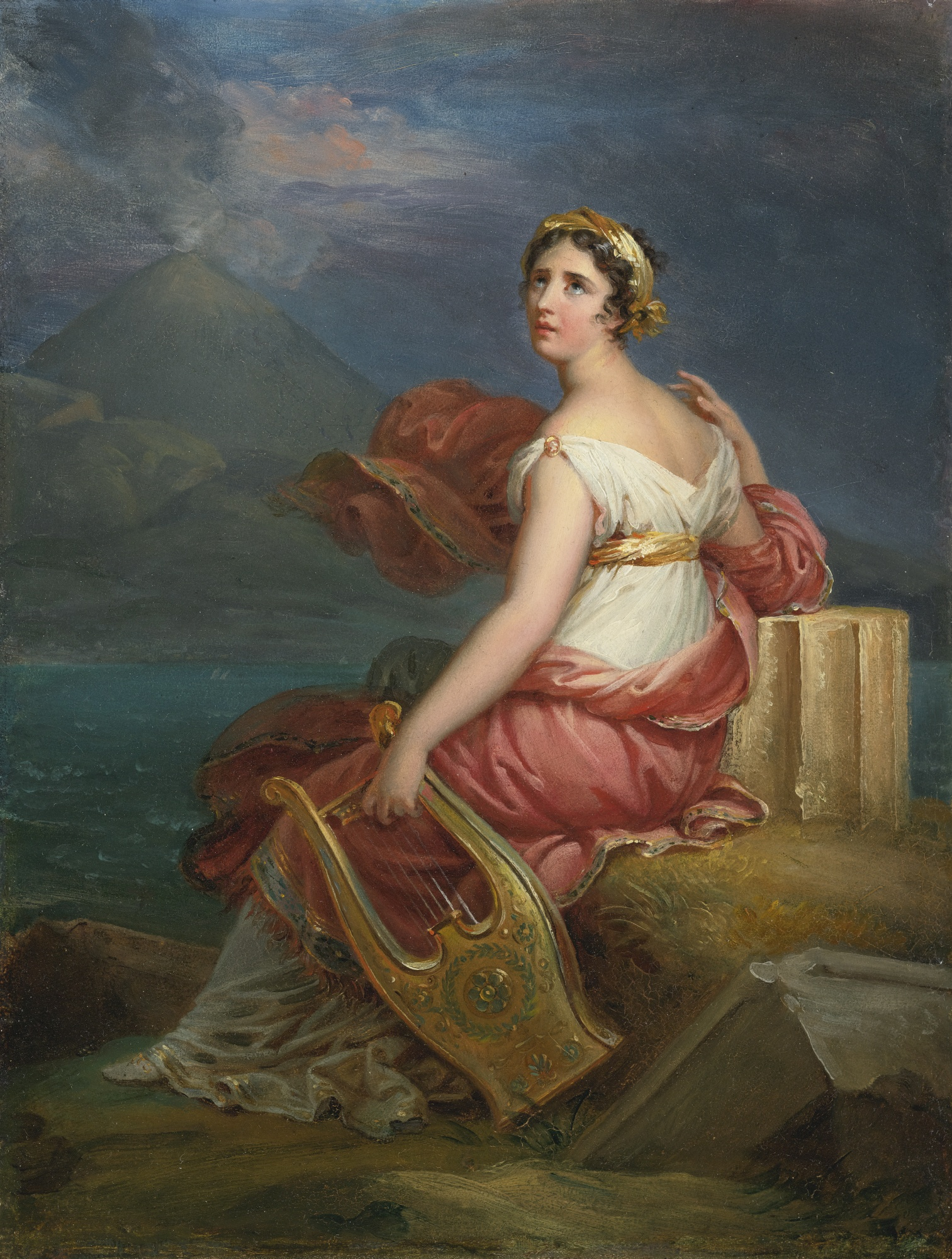 Corinne au Cap Misène